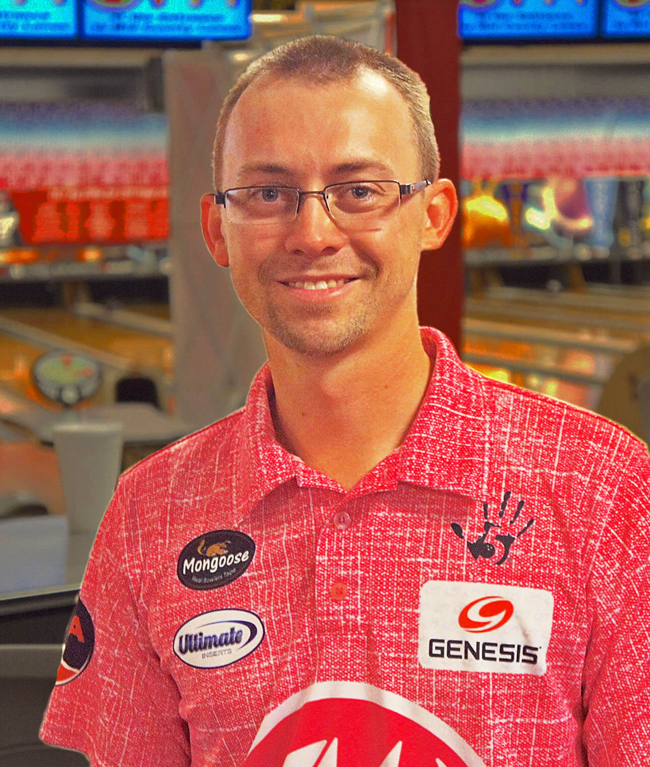 Portrait of American ten-pin bowler E. J. Tackett on August 20, 2017 in Middletown, Delaware, U.S.